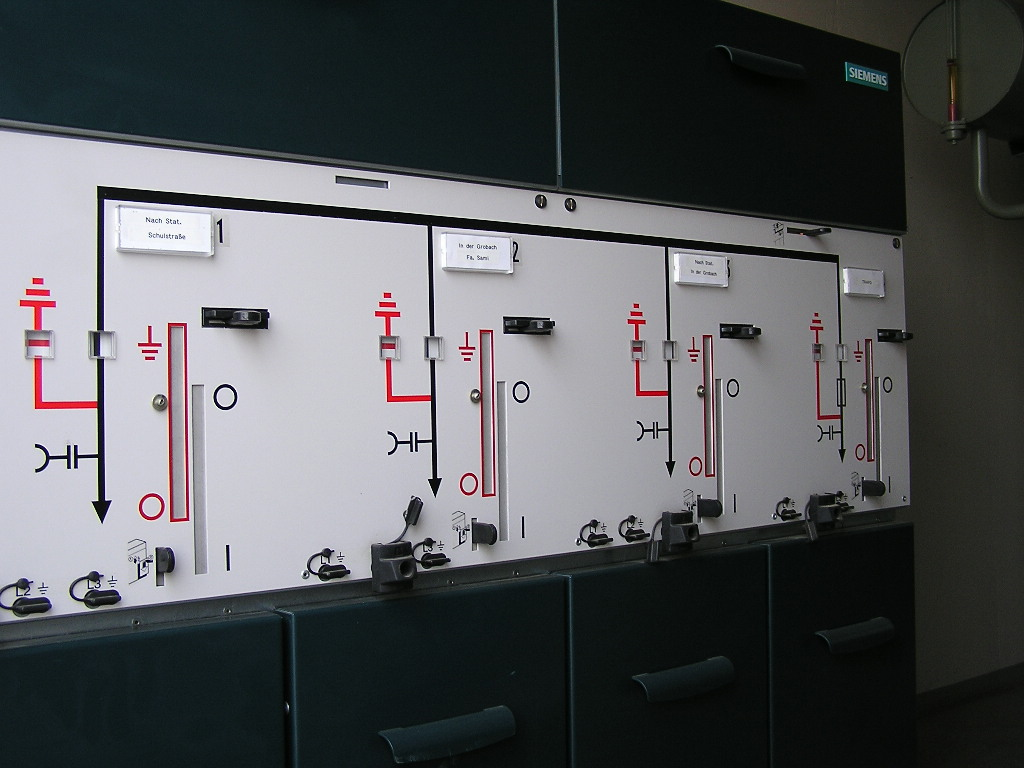 Inside a electrical substation: Switchgear for 20,000 Volts.